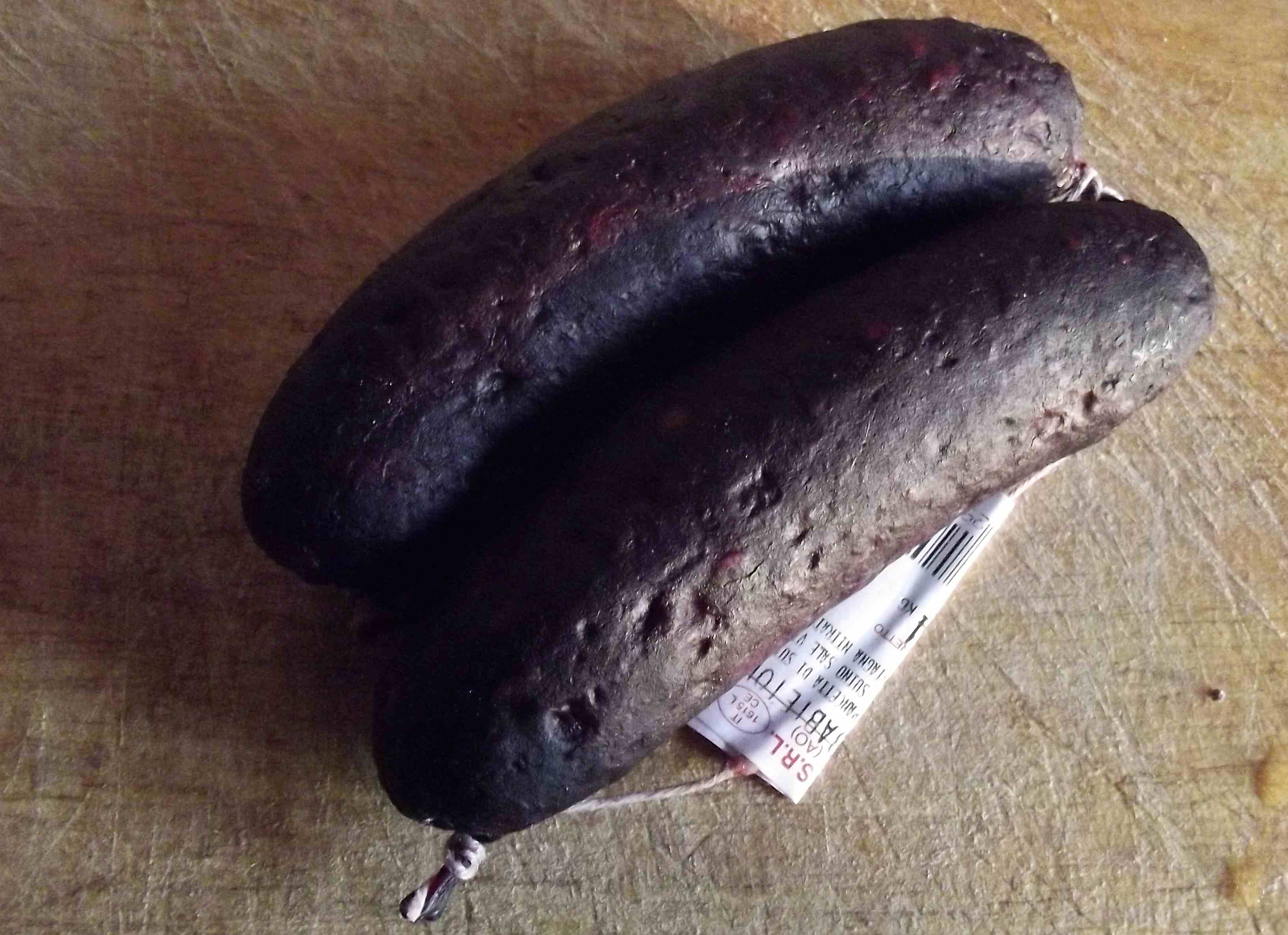 The boudeun, a typical sausage from Aosta Valley (Italy)